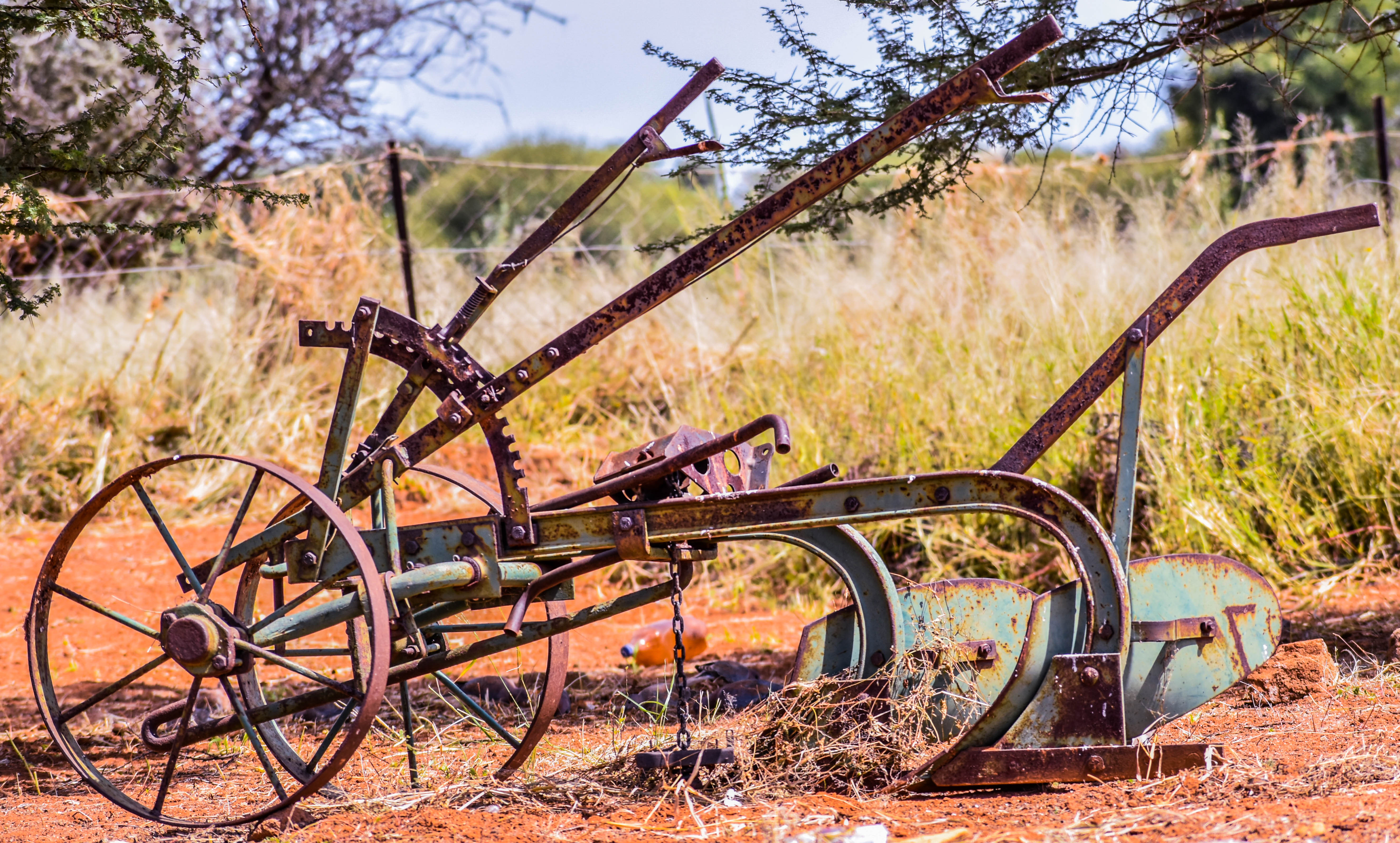 This is an image with the theme "Africa on the Move or Transport" from: Botswana